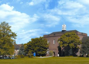 Manchester Grammar School: Side View of the Main Building. The avenue runs across the foreground and the Pavilion can be seen left.